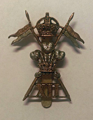 Photo of 12th Royal Lancers Cap Badge from personal collection